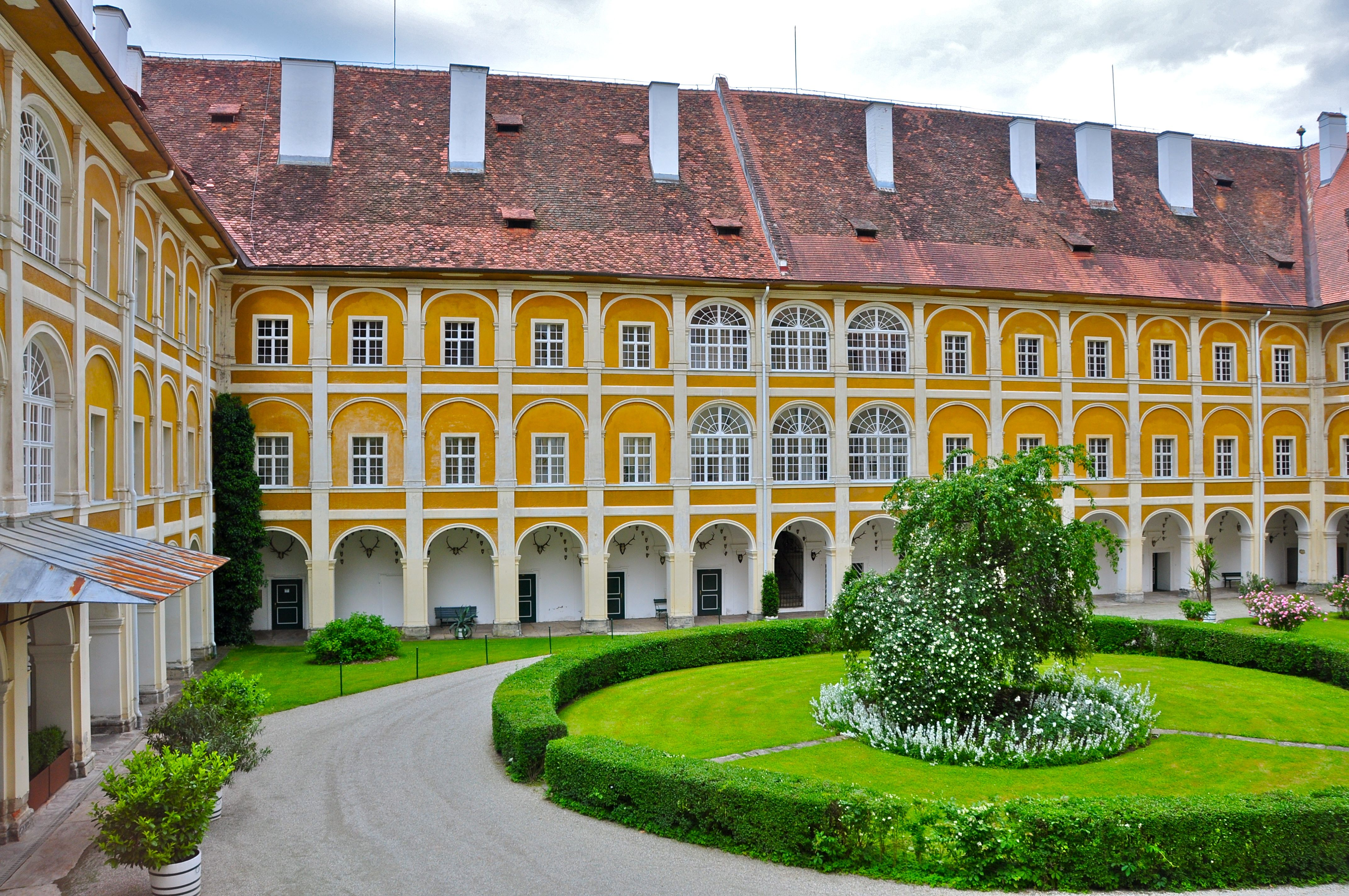 Arcade yard in the castle Stainz, municipality Stainz, district Deuts hlandsberg, Styria, Austria